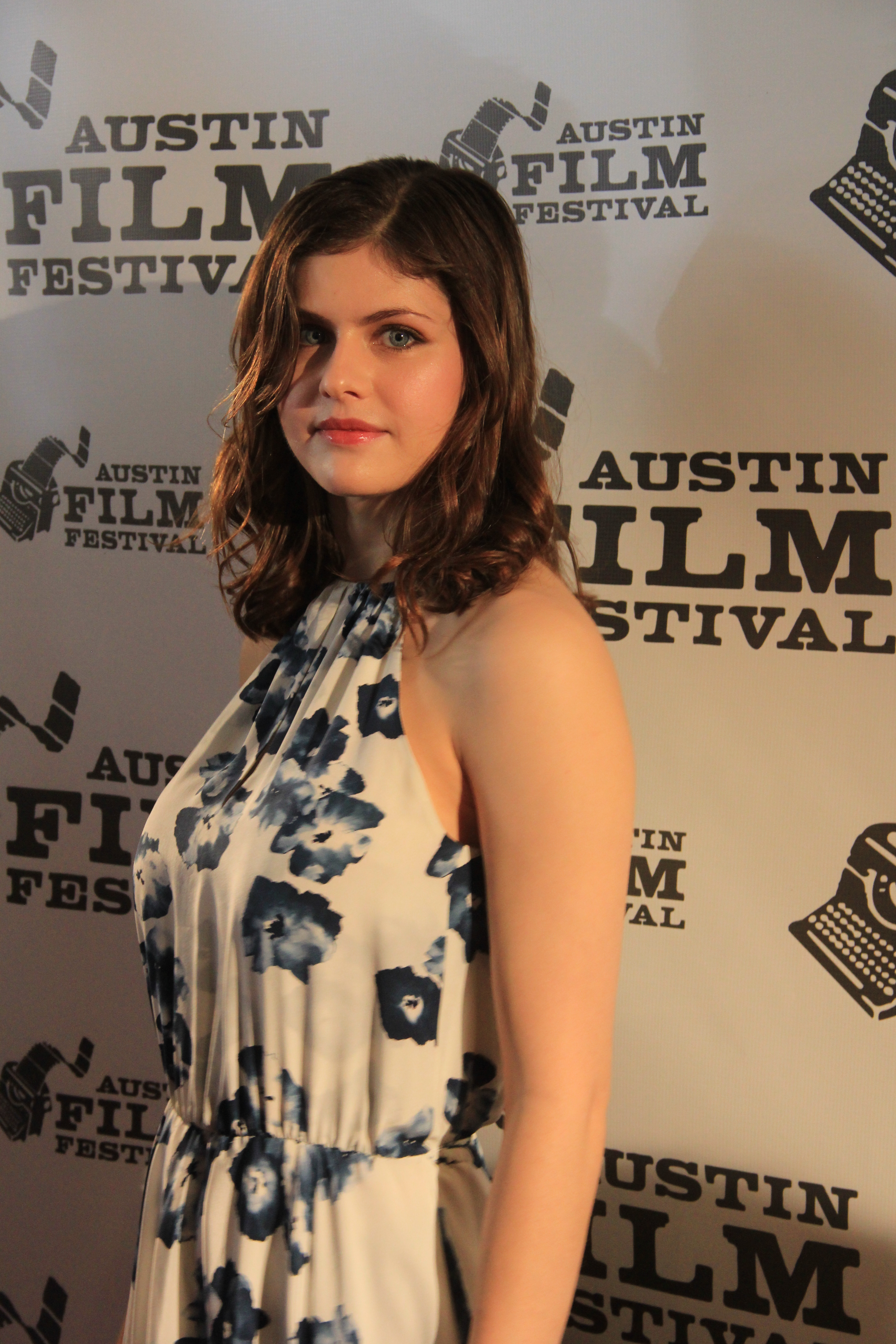 Alexandra Daddario at Austin Film Festival